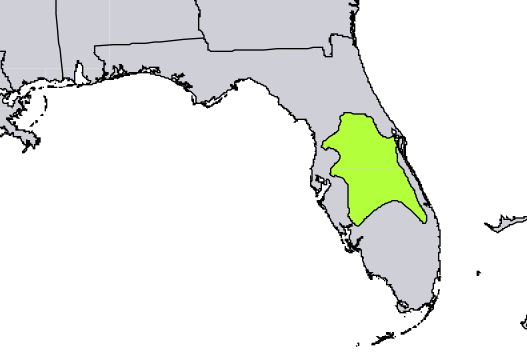 Range map of Carya floridana